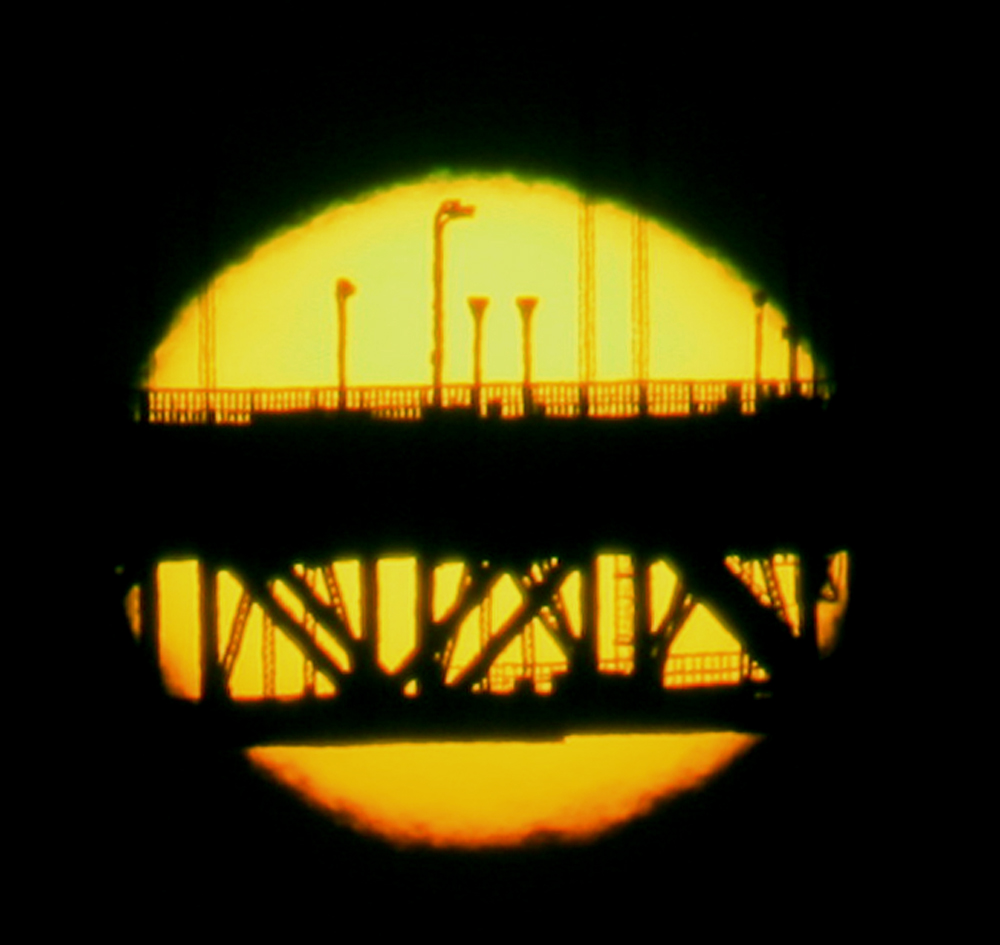 The sun setting behind Golden Gate Bridge demonstrates green rim in San Francisco.